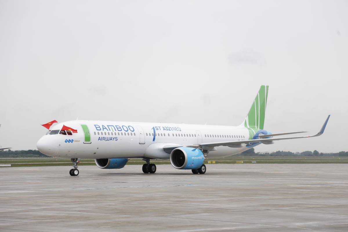 Bamboo Airlines' first A321 Neo at Noi Bai Airport